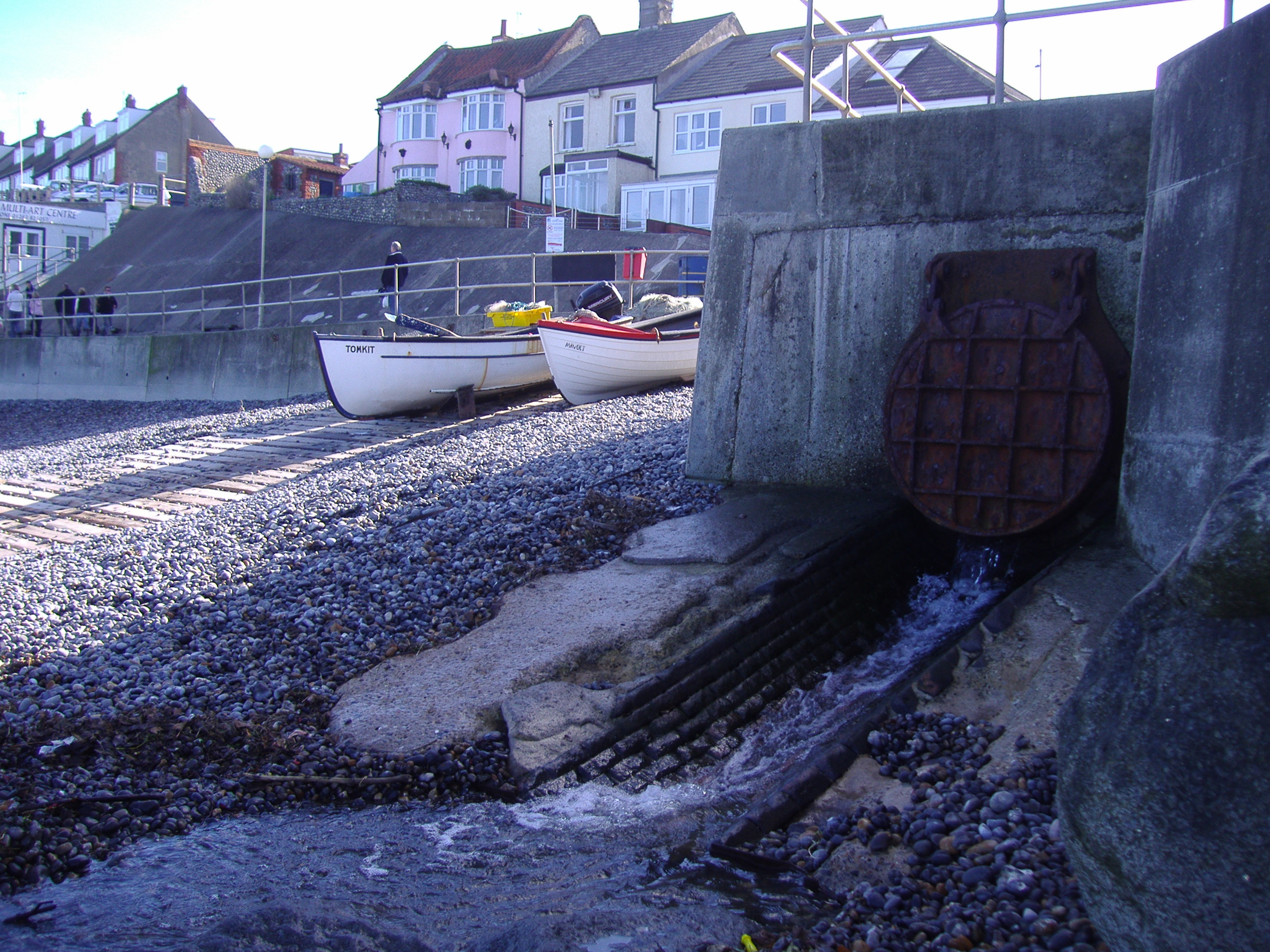 A digital photograph of beeston becks outfall on Sheringham beach.